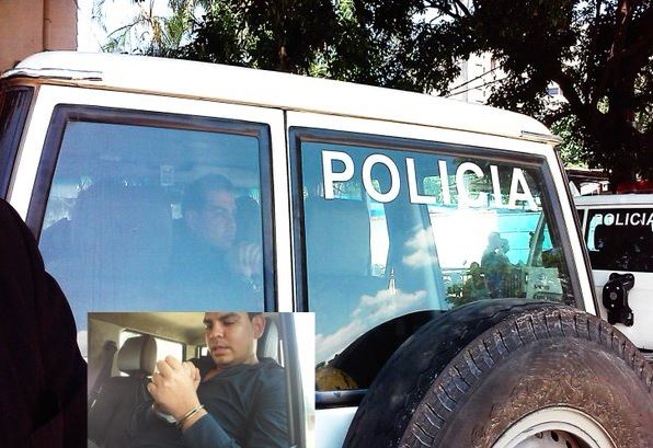 Oscar Tellechea Detenido Por Defender Derechos Constitucionales